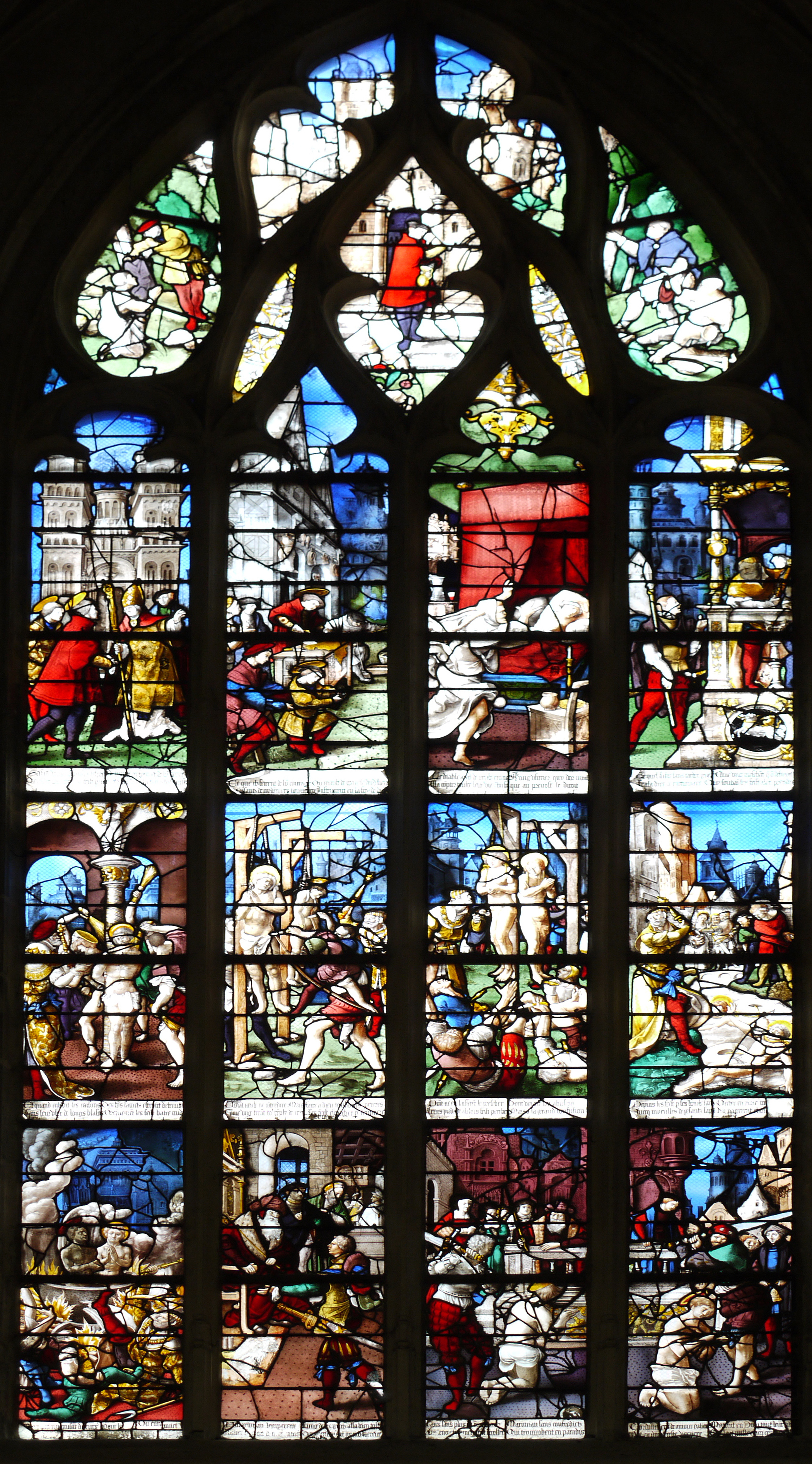 Stained glass windows about the martyr of Saint Crépin and saint Crépinien, Church of Saint-Gervais-Saint-Protais , Gisors , Eure, France.